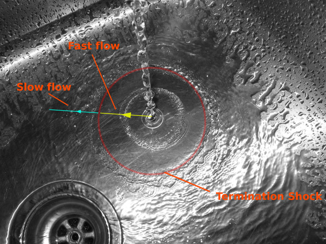 Example of a termination shock created by water hitting a sink.